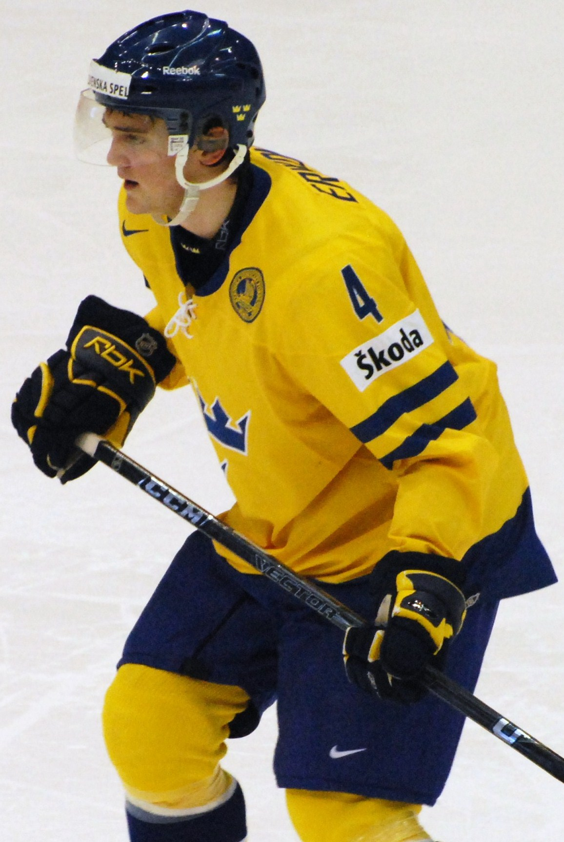 Tim Erixon during the 2010 World Junior Hockey Championships